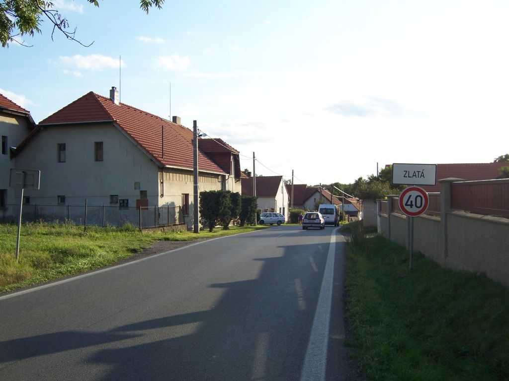 Zlatá